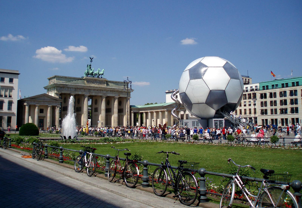 The Brandenburg Gate in Berlin during the World Cup, June 2006.